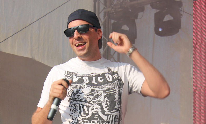 Rapper Frauenarzt